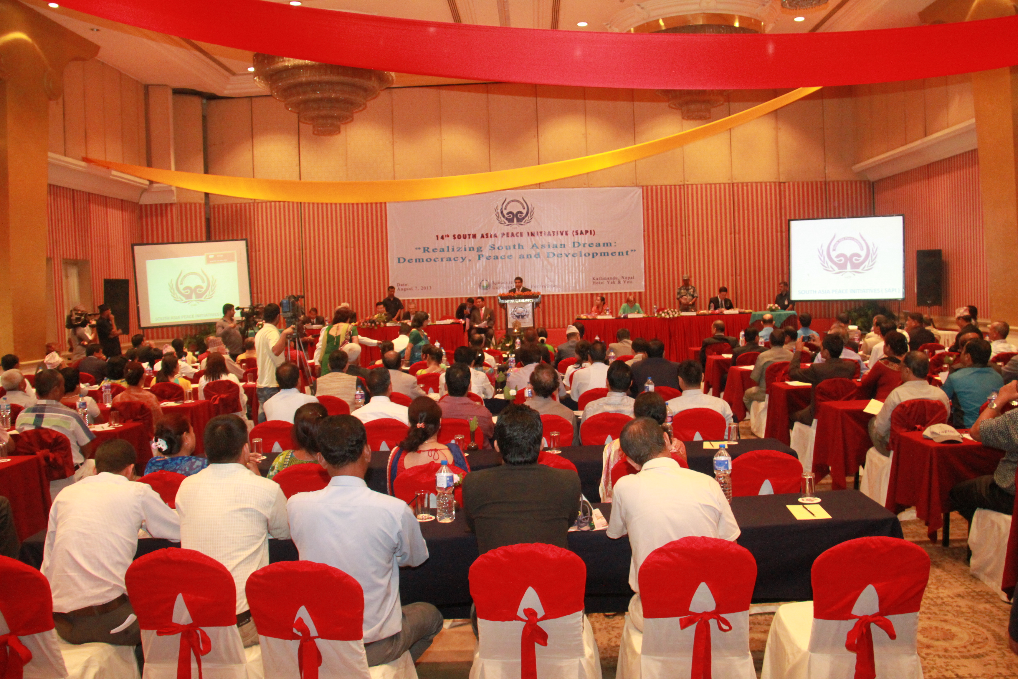 4th South Asia Peace Initiatives (SAPI) held in Kathmandu, Nepal on August 7, 2013.